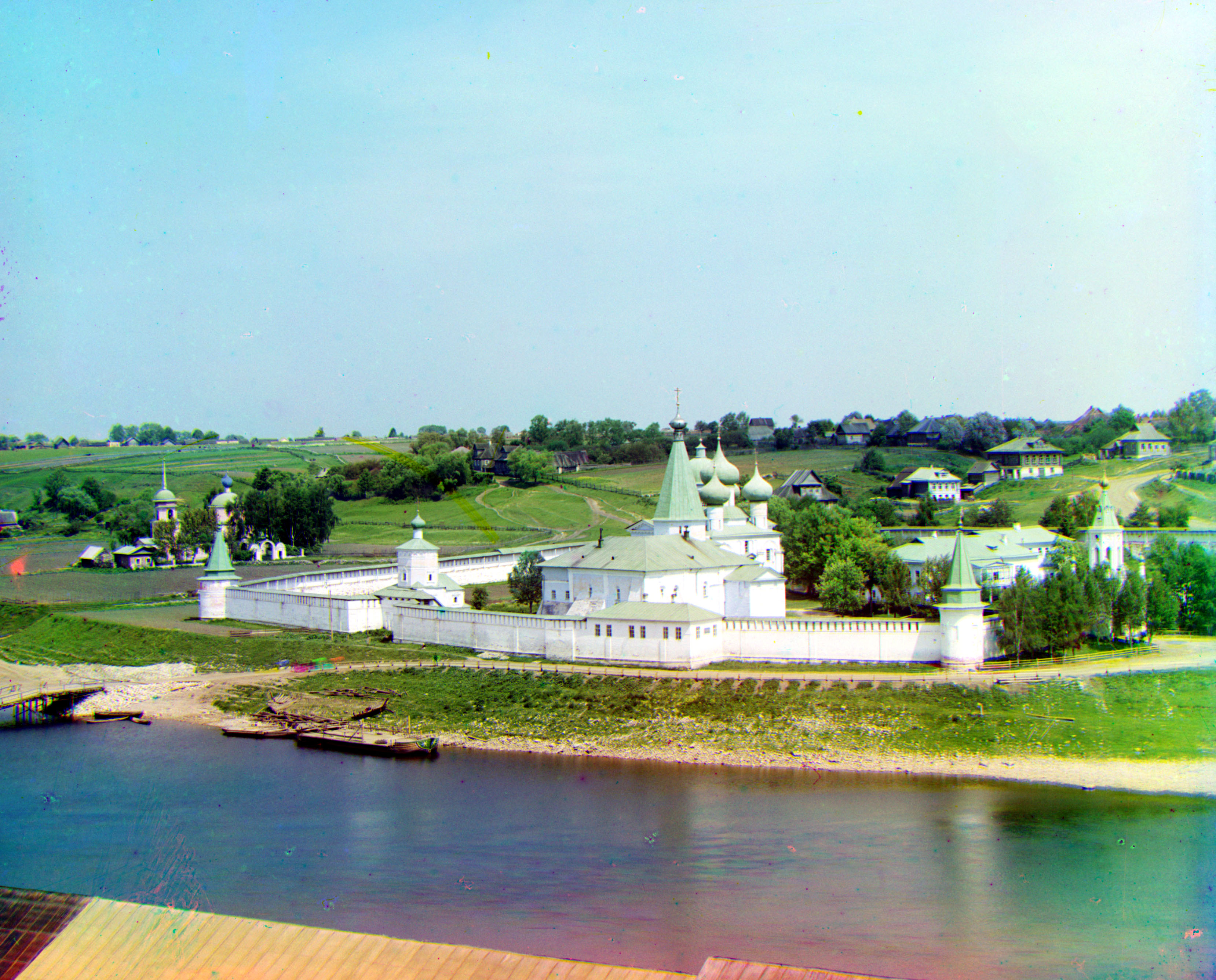 Holy Dormition Monastery in Staritsa - Orthodox Monastery in the Tver diocese. Located in Staritsa on the Volga river above the mouth of the Upper oxbow lakes.